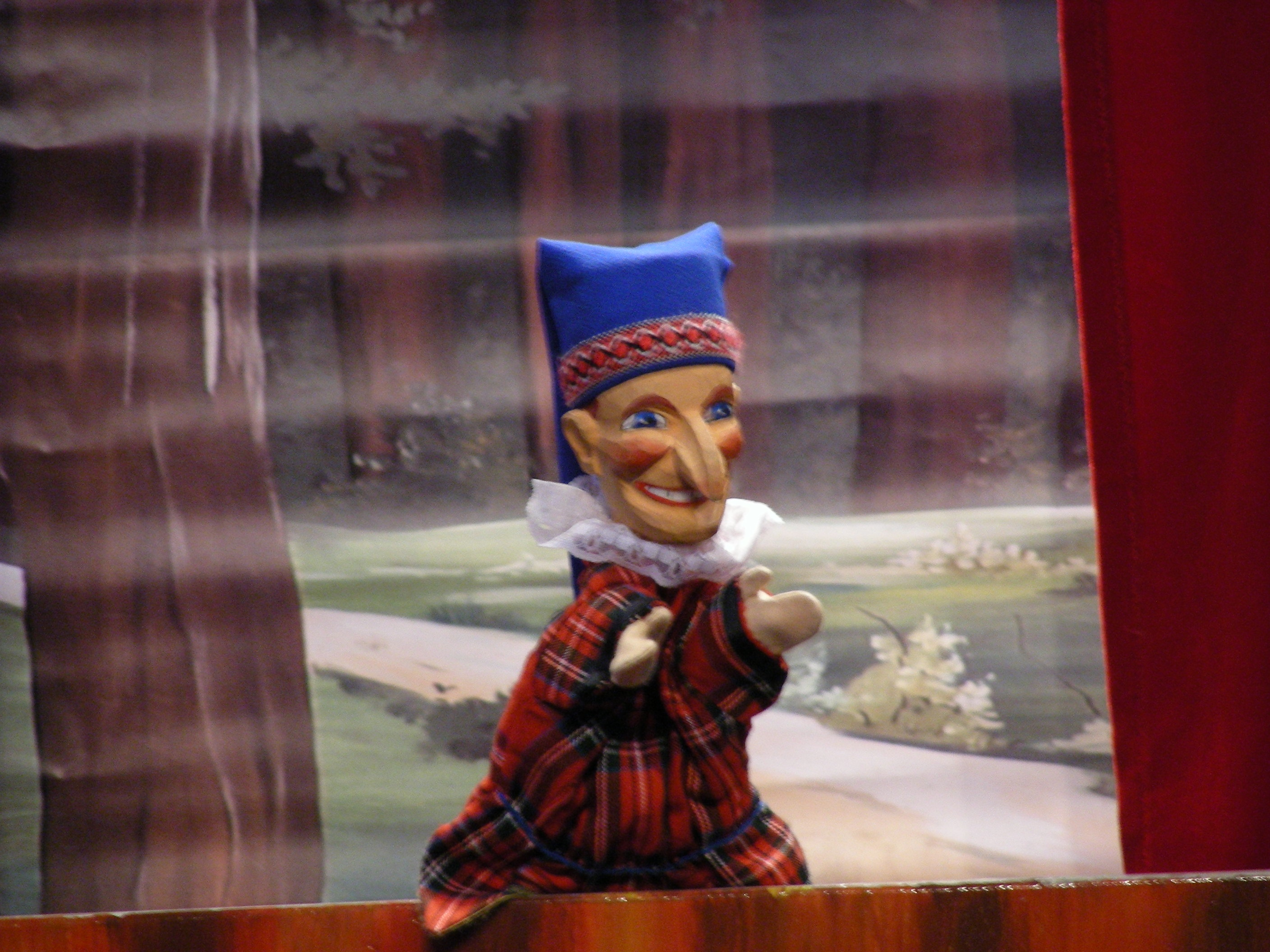 No fun fair without Kasperle